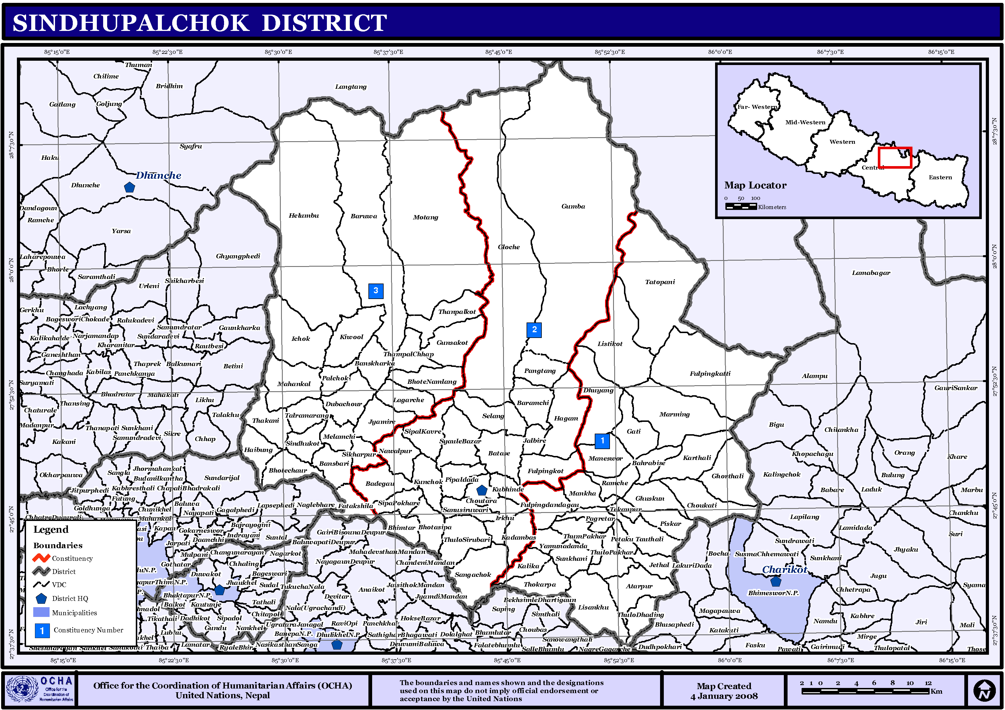 Map displaying Village Development Committees in Sindhupalchok District, Nepal